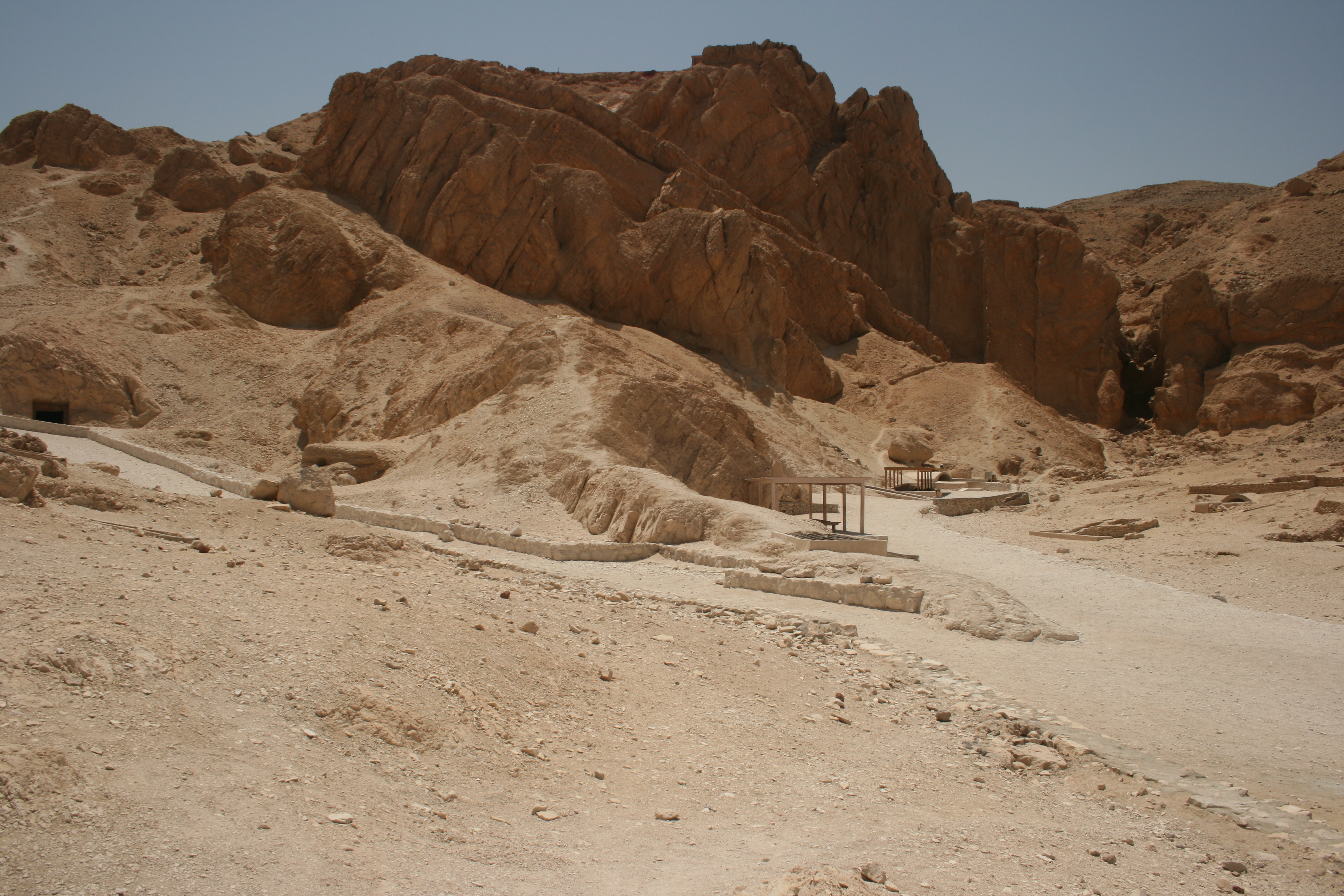 View of Valley of the Queens, near Luxor, Egypt